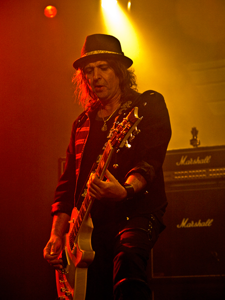 Motörhead - Phil Cambell - guitar - 2/28/11 NYC Best Buy Theater by John Gullo